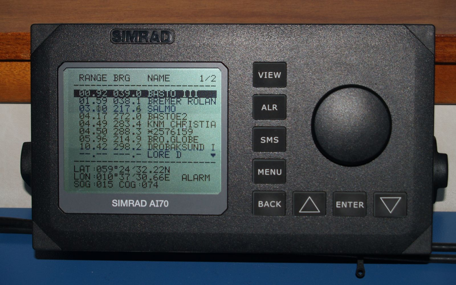 The picture shows a AIS display on board a vessel, listing vessels nearby with range, bearing and name. The picture was shot on the bridge of the Norwegian coastal vessel MF Bastø II.